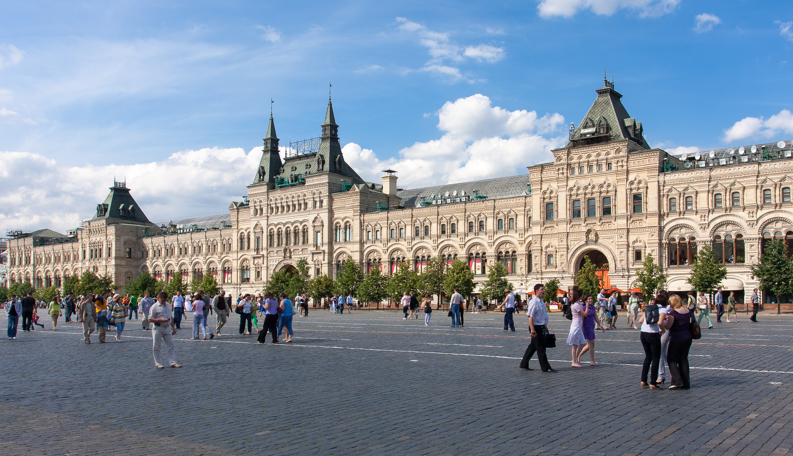 GUM Store / Moscow, Russia